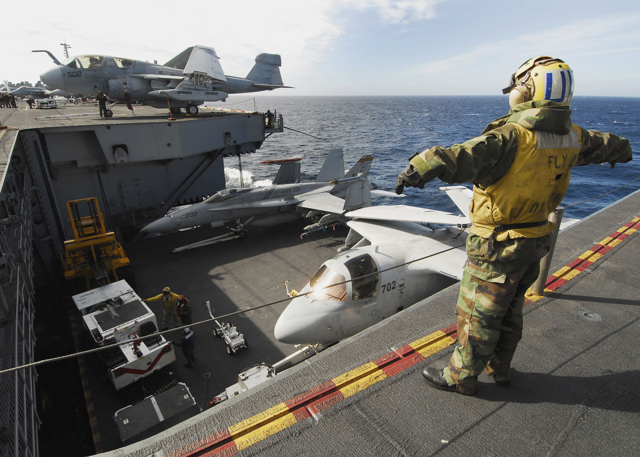 Pacific Ocean (Nov. 11, 2006) - A flight deck handling member performs hand signals to communicate with elevator operators to lower aircraft and support equipment from the flight deck to the hangar bay aboard the nuclear-powered aircraft carrier USS John C. Stennis (CVN 74). Serving as the flagship for Carrier Strike Group Three (CSG-3), Stennis is currently participating in Joint Task Force Exercise (JTFEX). JTFEX is the third at-sea phase of the John C. Stennis Strike Group's (JCSSG) pre-deployment training cycle. U.S. Navy photo by Mass Communication Specialist 3rd Class Jon Hyde (RELEASED)